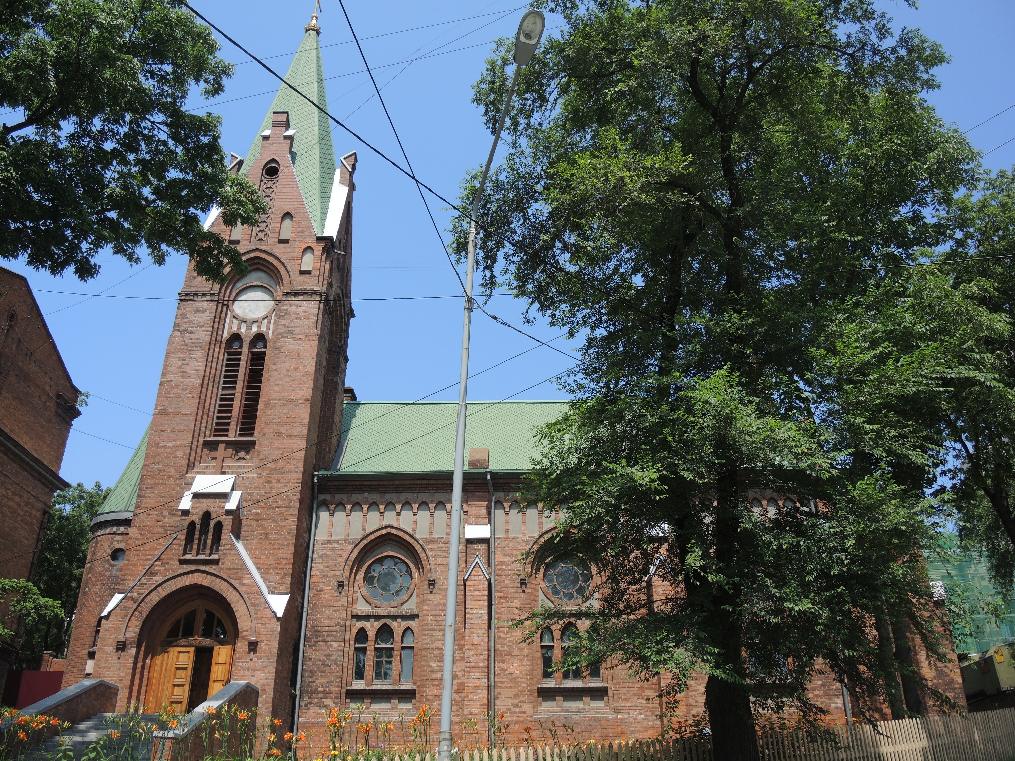 Lutheran St. Paul's church in Vladivostok, 1907, by Georg Junghändel